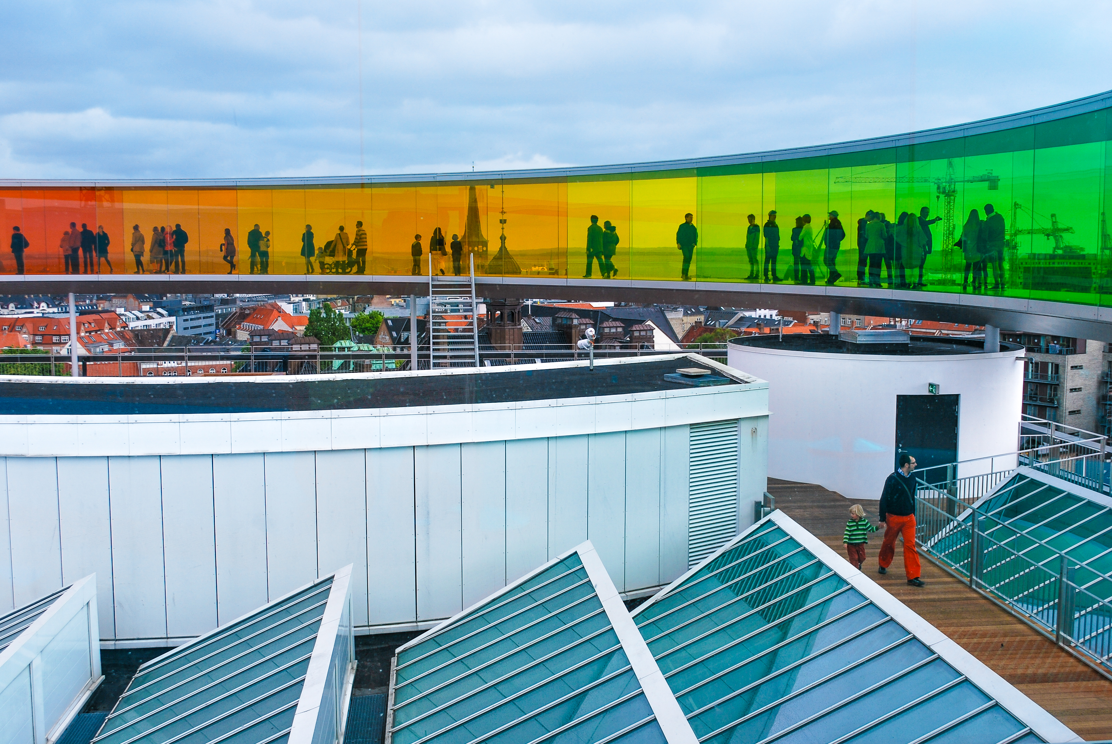 Installation “Your rainbow panorama,” by Ólafur Eliasson at ARoS Aarhus Art Museum, Denmark – May 29, 2011.